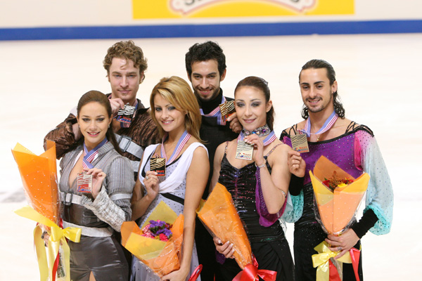 The ice dancing podium at the 2007 Skate America. From left: Nathalie Péchalat / Fabian Bourzat (2nd), Tanith Belbin / Benjamin Agosto(1st), Federica Faiella / Massimo Scali (3rd)